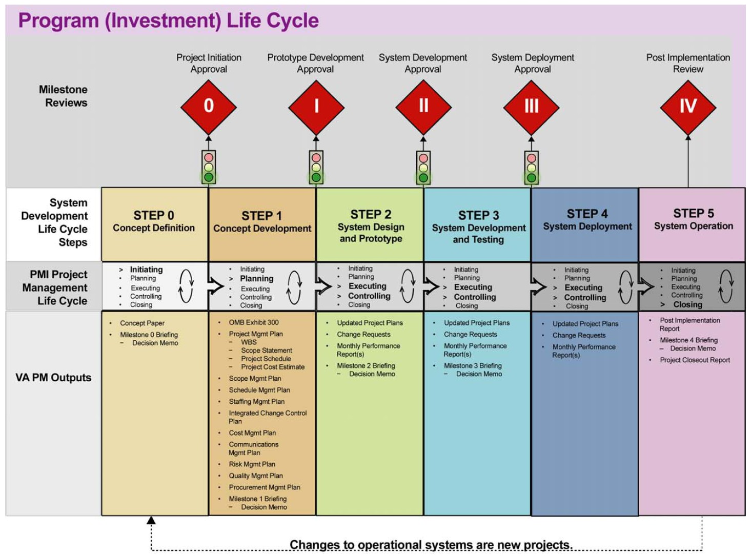 VA IT Project Management Framework